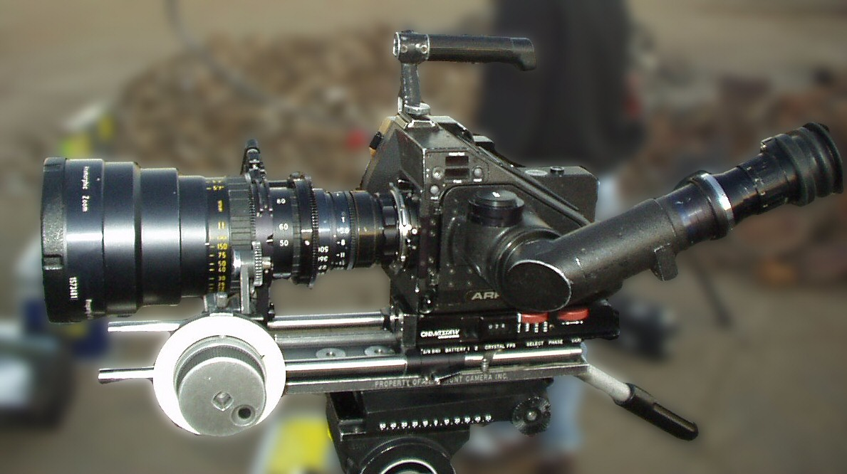 Arri 35II MOS 35mm motion picture film camera with a crystal sync drive, viewfinder extender, a follow focus, and a Clairmont-modified Carl Zeiss anamorphic zoom lens.Also, it has a optical zoom rate of 30p plus. The indication processor also has a fast apaterure.